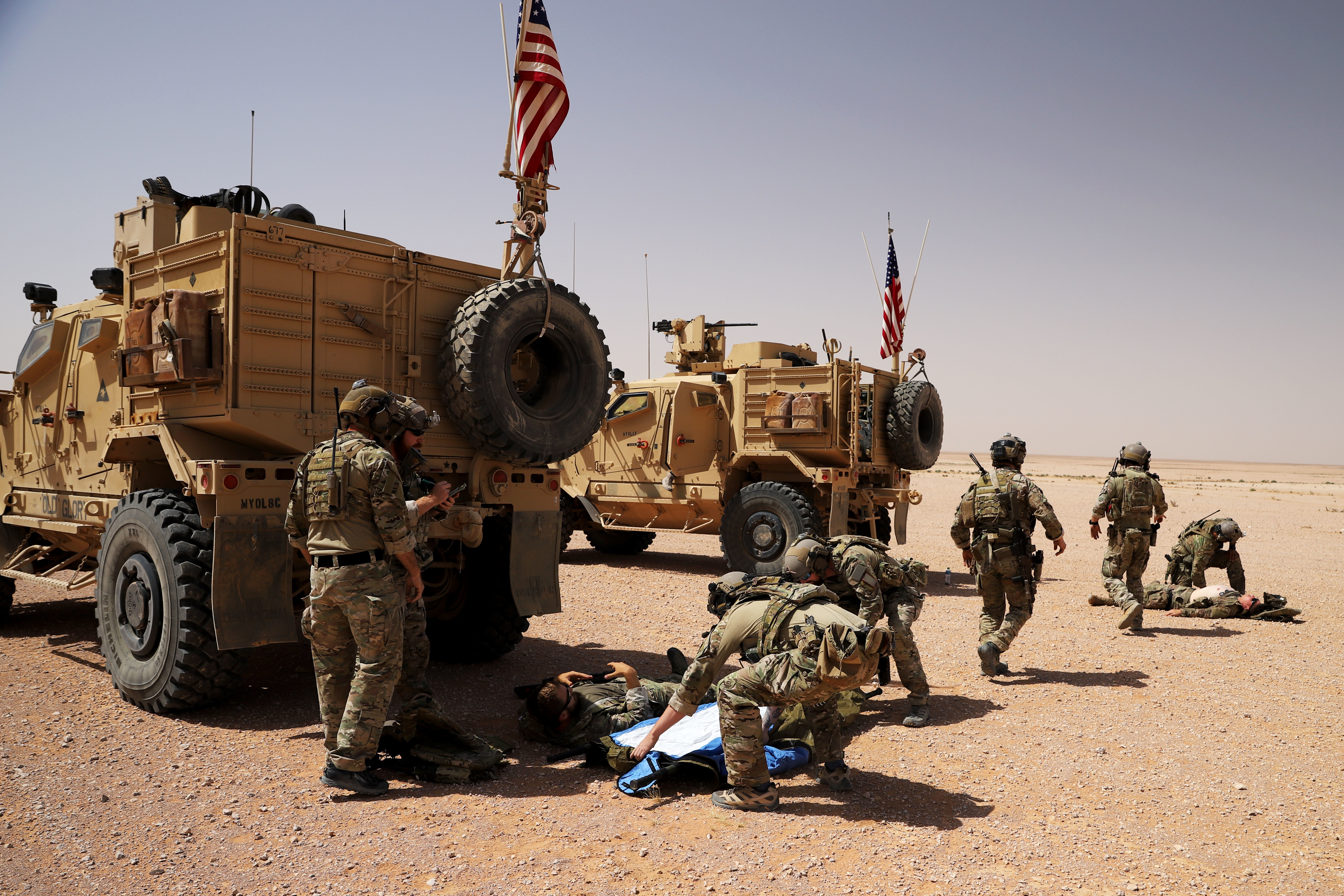 Green Berets conduct a medical evacuation exercise during a patrol within the 55km deconfliction zone in Syria, May 27, 2020. Coalition Forces in Syria regularly train on various tactics and procedures to enhance readiness in an enduring effort to defeat of Daesh. Photo altered for security reasons. (U.S. Army photo by Staff Sgt. William Howard)